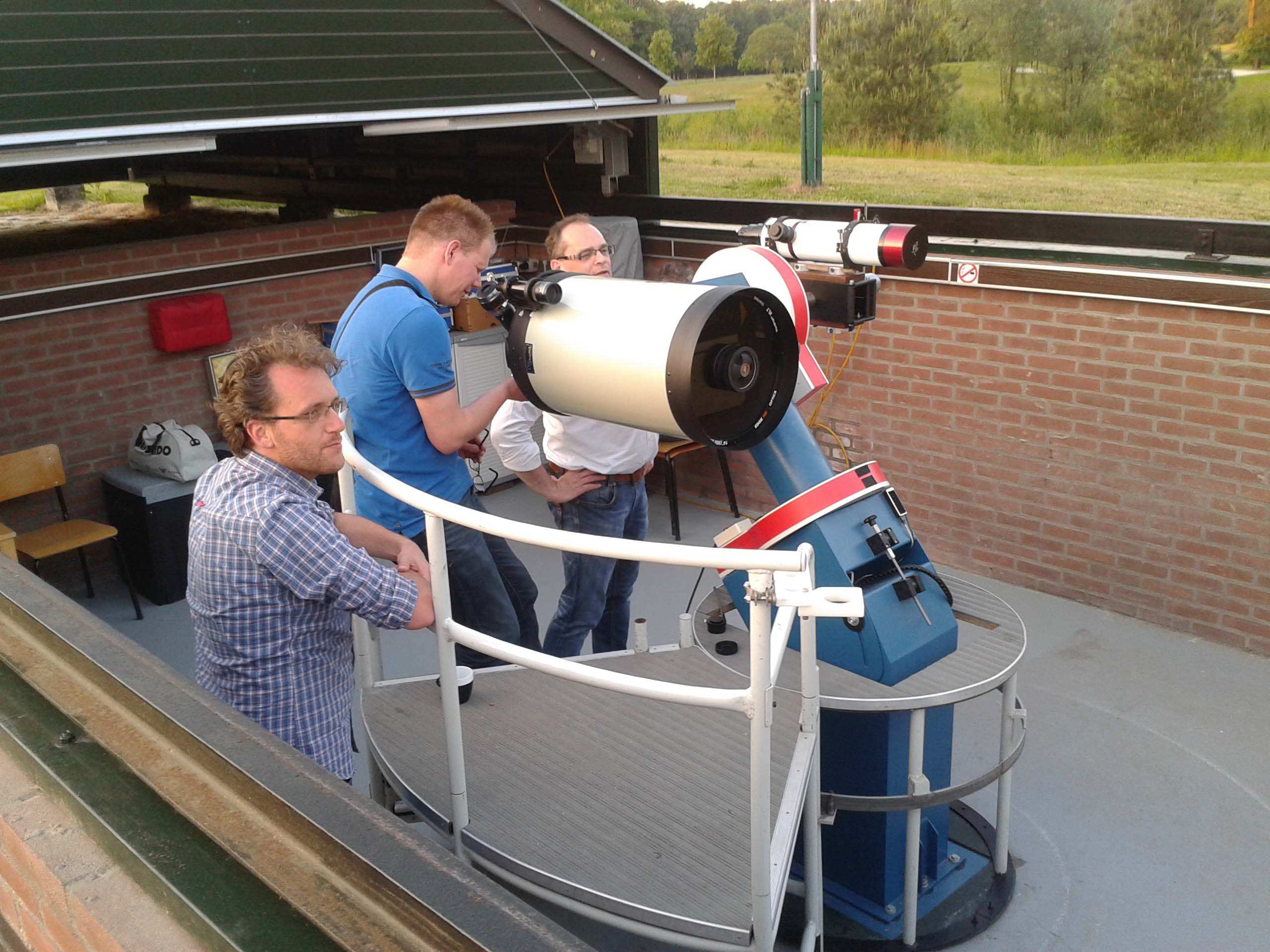 Public Observatory "Bussloo" with the new C14 celestron telescope.